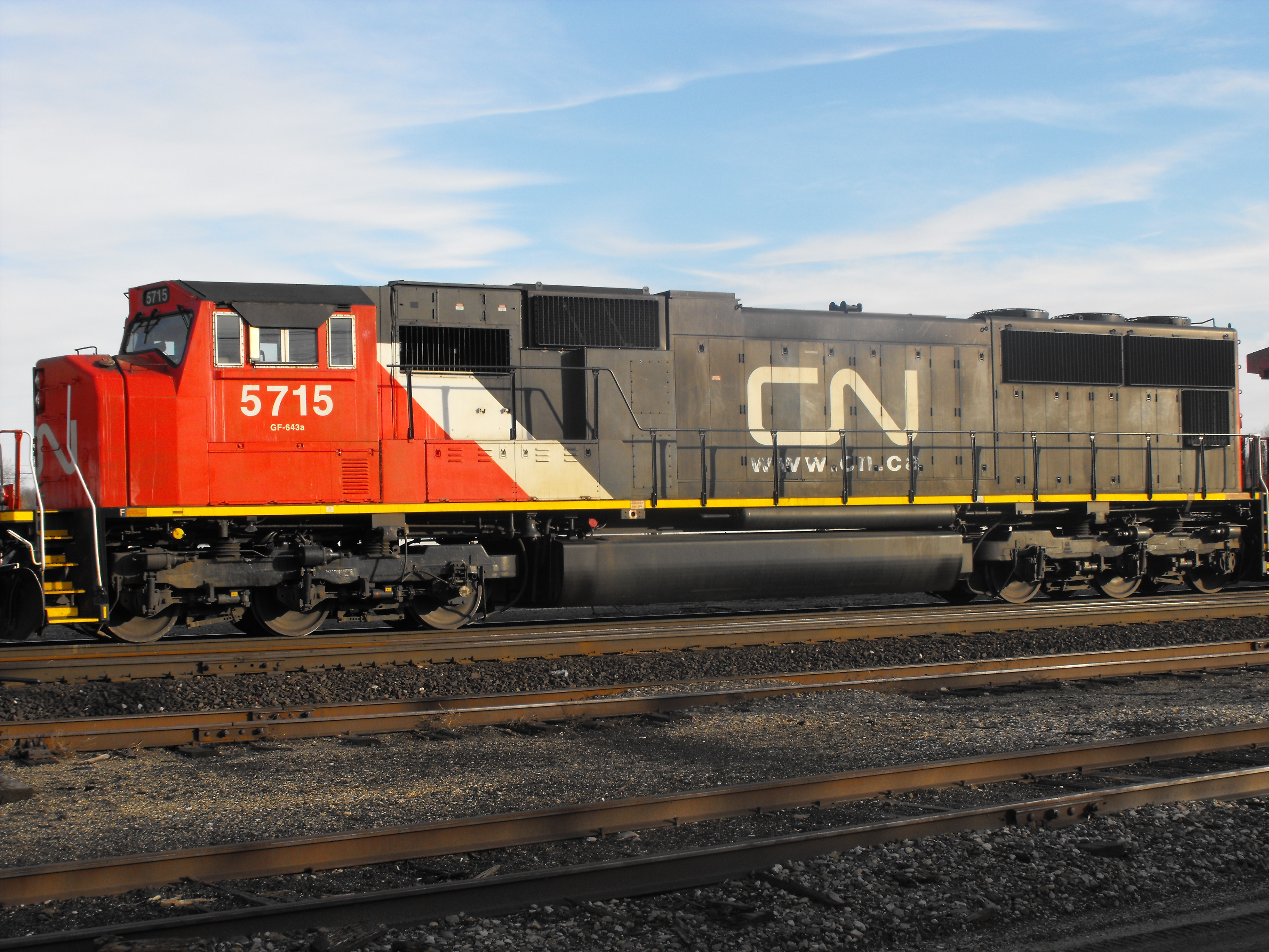 CN Loco #5715 Battle Creek